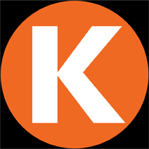 Logo or electoral symbol of the political movement "Force 2011. " Web site comes from the same party, can be accessed by anyone on the Web. As a political party, it is public information that can be used freely. Peruvian Law does not restrict the use of party symbols, if used for informational purposes, this being in addition to the interest of the parties.